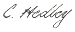 signature of Charles Hedley